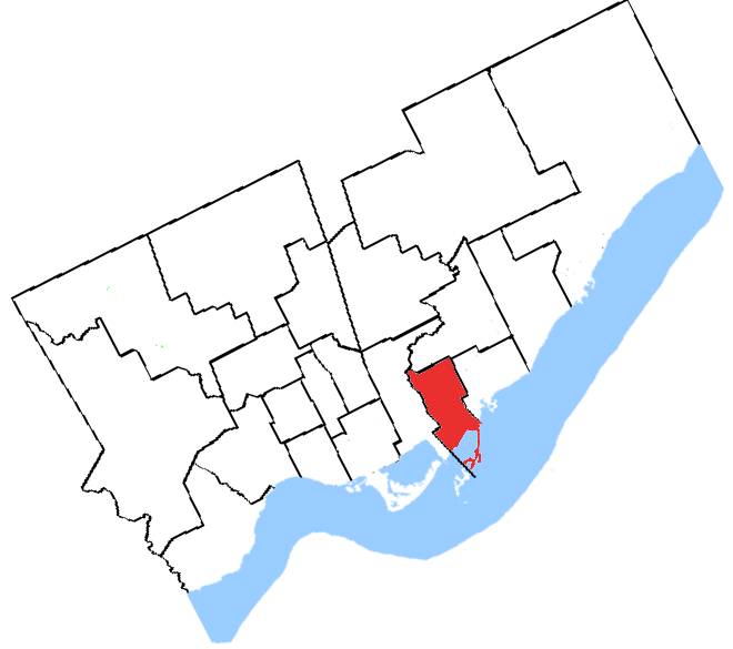 Map of the Broadview (electoral district) electoral district showing its borders from 1966 to 1976. Created by SimonP.